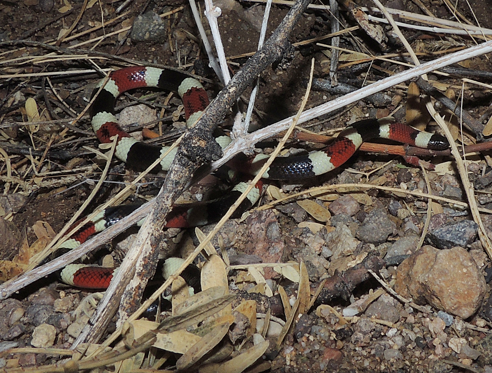 Micruroides euryxanthus (Sonoran Coral Snake) in Arizona.